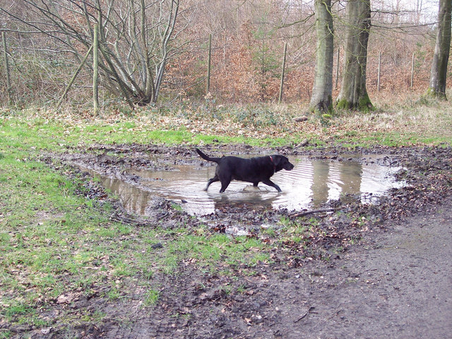 Guinness doing what Guinness does best - getting muddy!